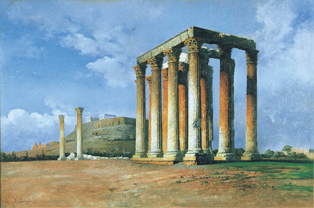 Temple of Olympian Zeus, Athens